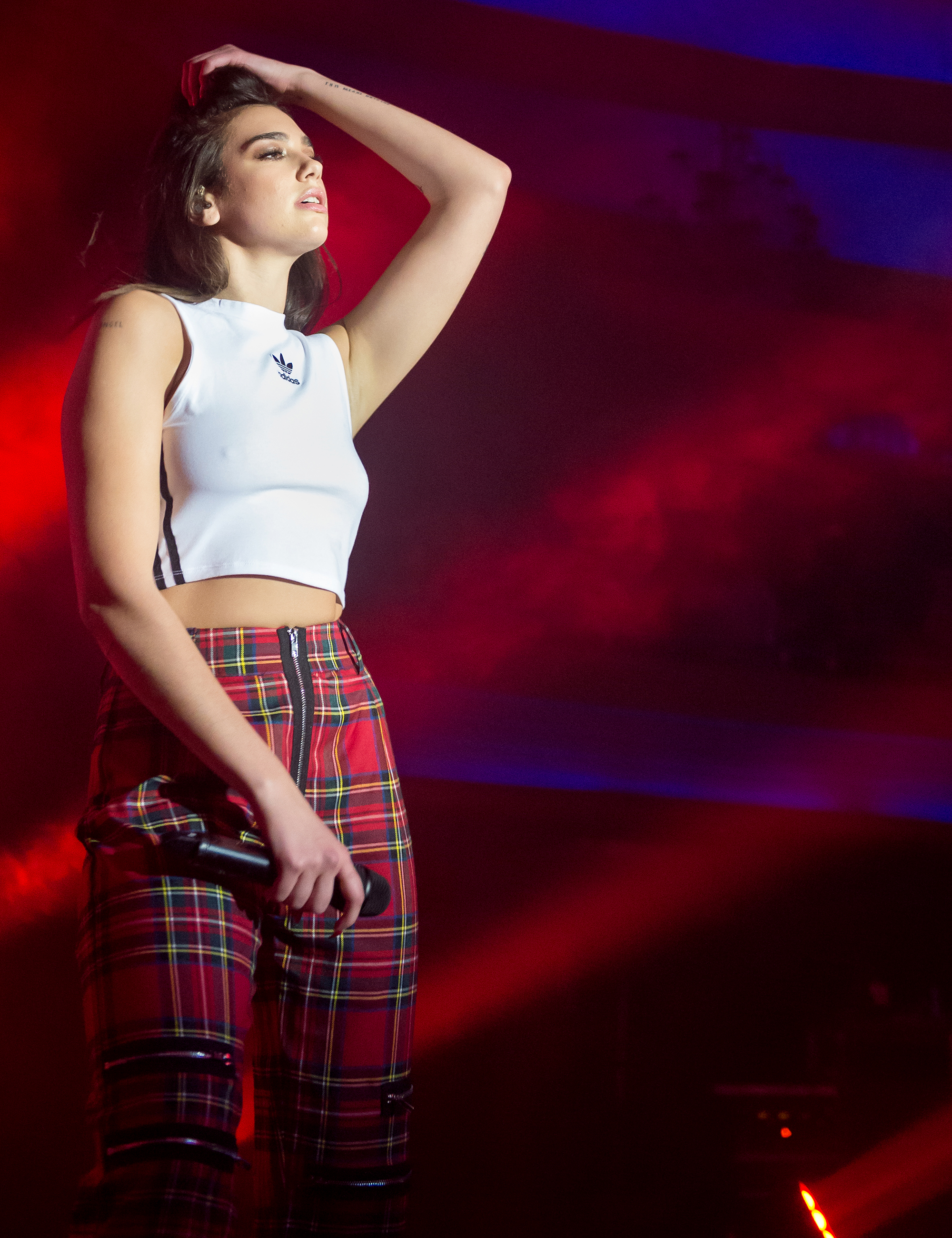 Dua Lipa performing live at The Palladium in Hollywood, Los Angeles, California, on Thursday, February 8, 2018. The first of two sold out nights at this venue on Dua's "Self-Titled" Tour. Shot for Live Nation's Ones To Watch.